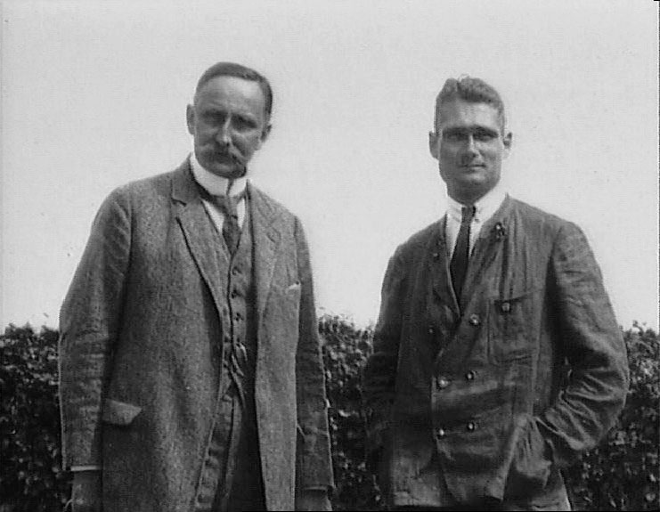 Portrait of Karl Haushofer and Rudolf Hess